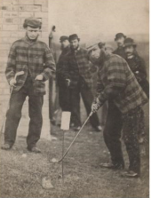 Scottish professional golfer Charlie Hunter (1836-1921) (left) at Prestwick in a match against Old Tom Morris in 1863. Both are wearing the traditional tweeds.